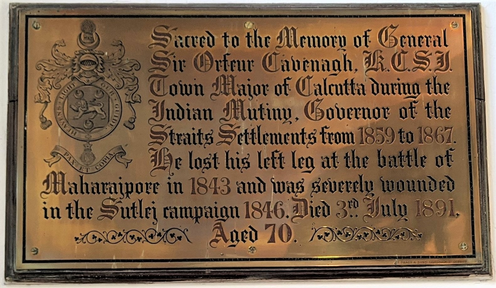 Brass plaque commemorating Sir William Orfeur Cavenagh, St Mary's Church, Long Ditton, Surrey